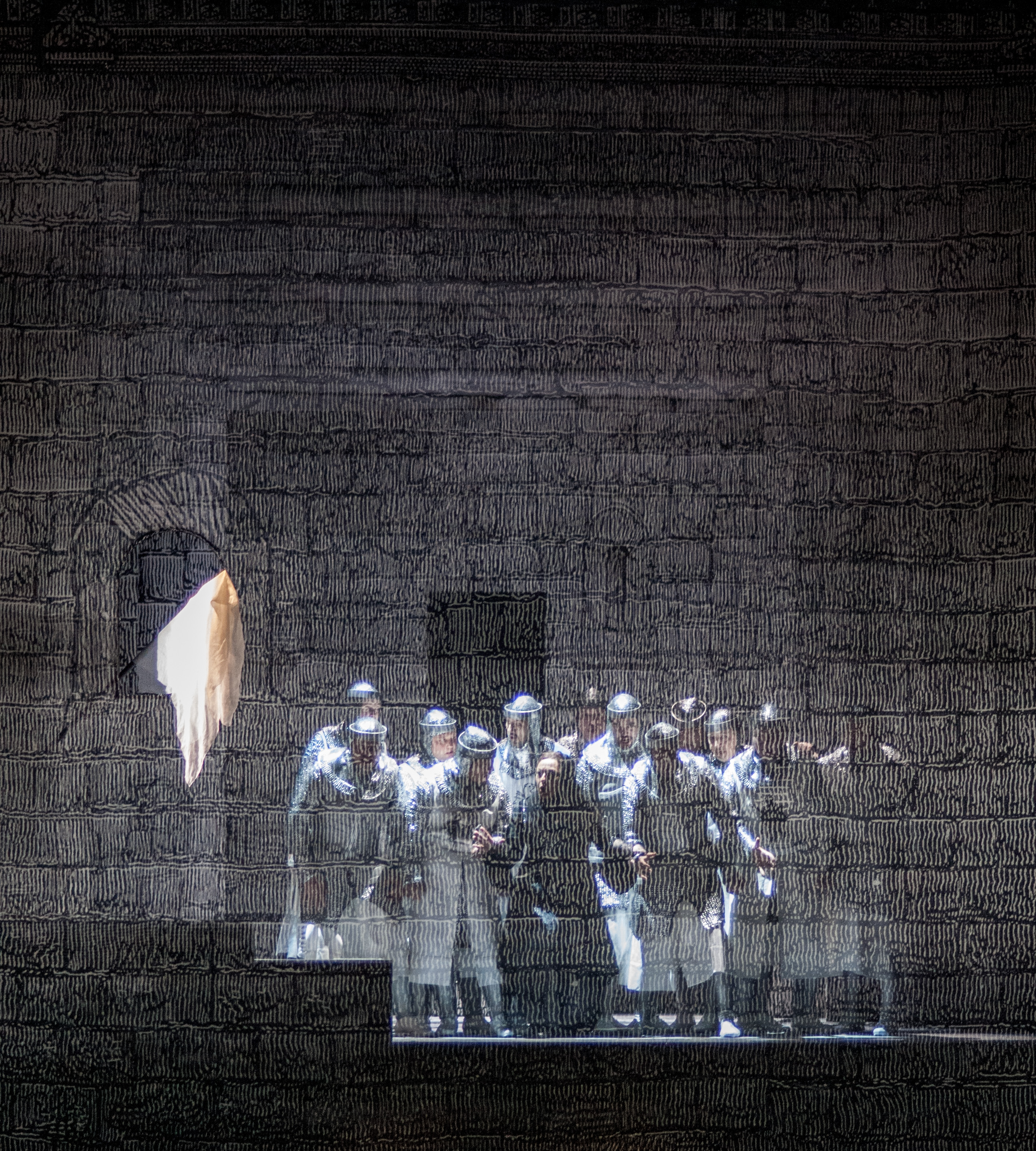 Fierrabras, Salzburger Festspiele 2014, directed by Peter Stein